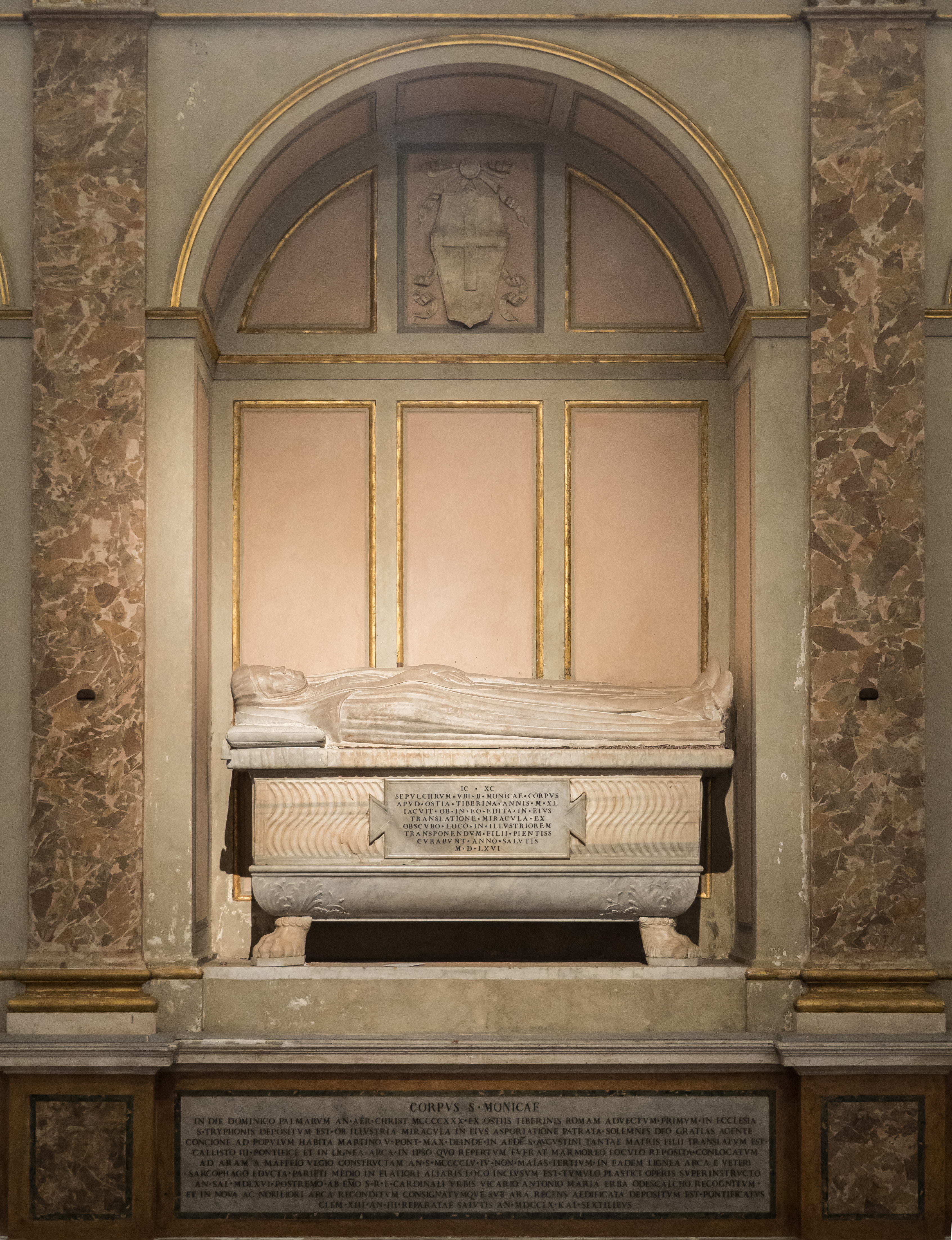 Sant'Agostino (Rome), Tomb of Saint Monica, Isaia da Pisa